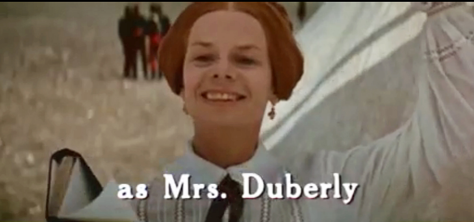 Jill Bennett in trailer for "The Charge of the Light Brigade" (1968)